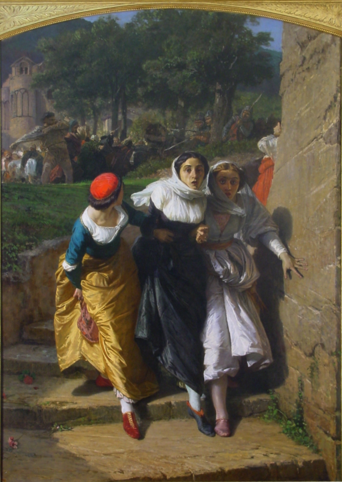 I Vespri Siciliani by Domenico Morelli (1823-1901)